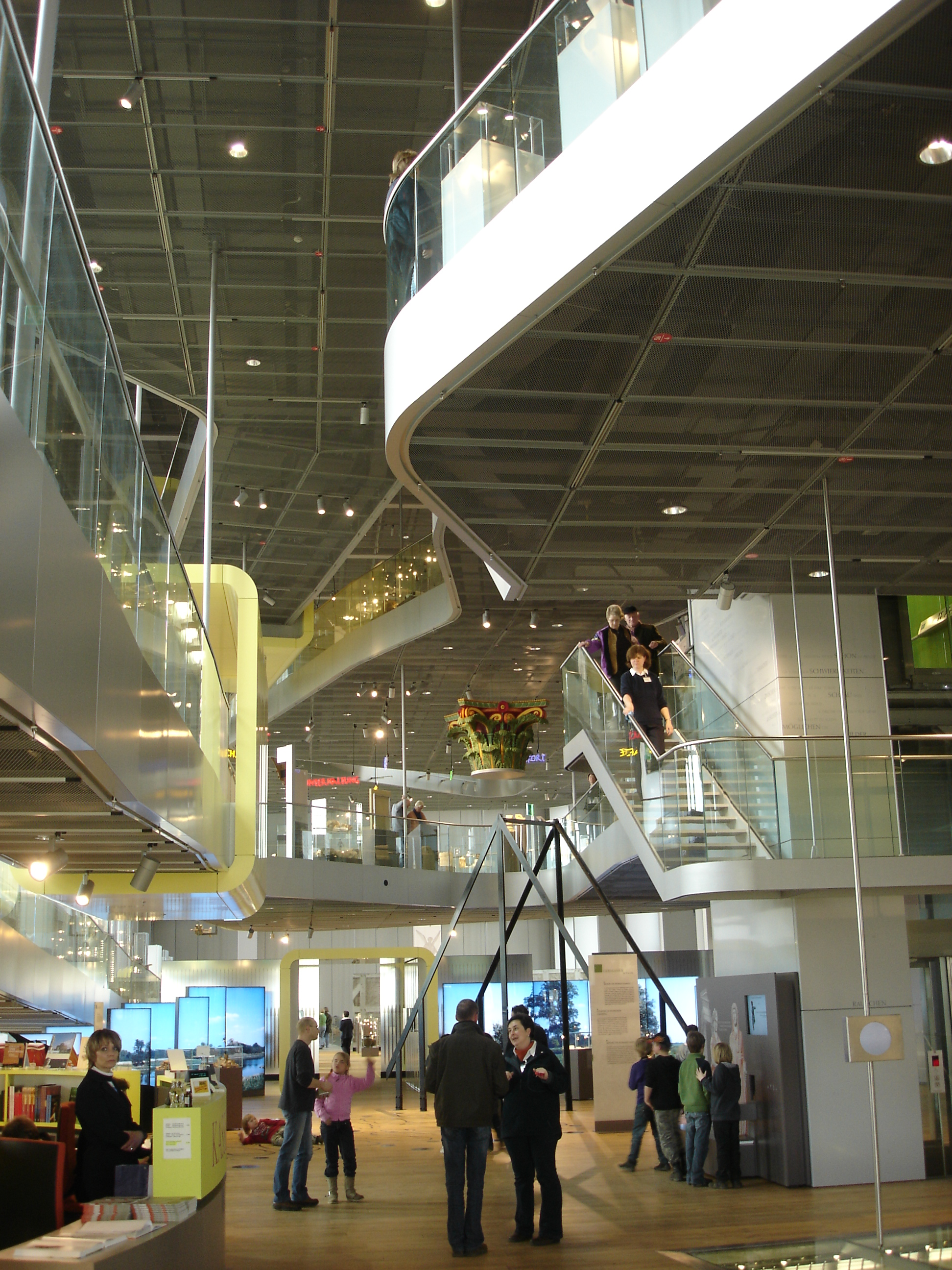 Interior LVR-RömerMuseum Xanten